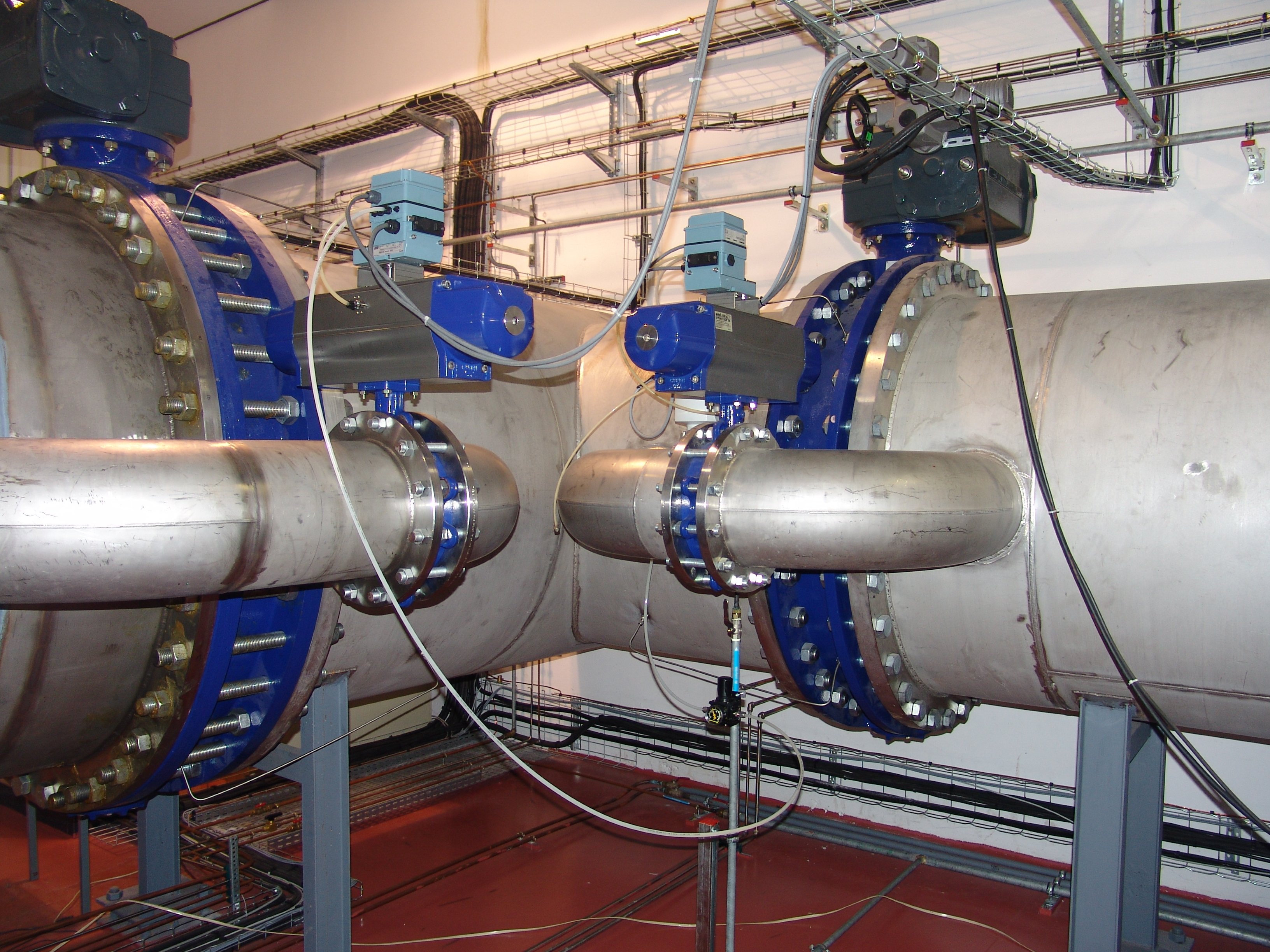 Buterfly valves of the facility Marhy (plateforme FAST, ICARE, CNRS Orléans)